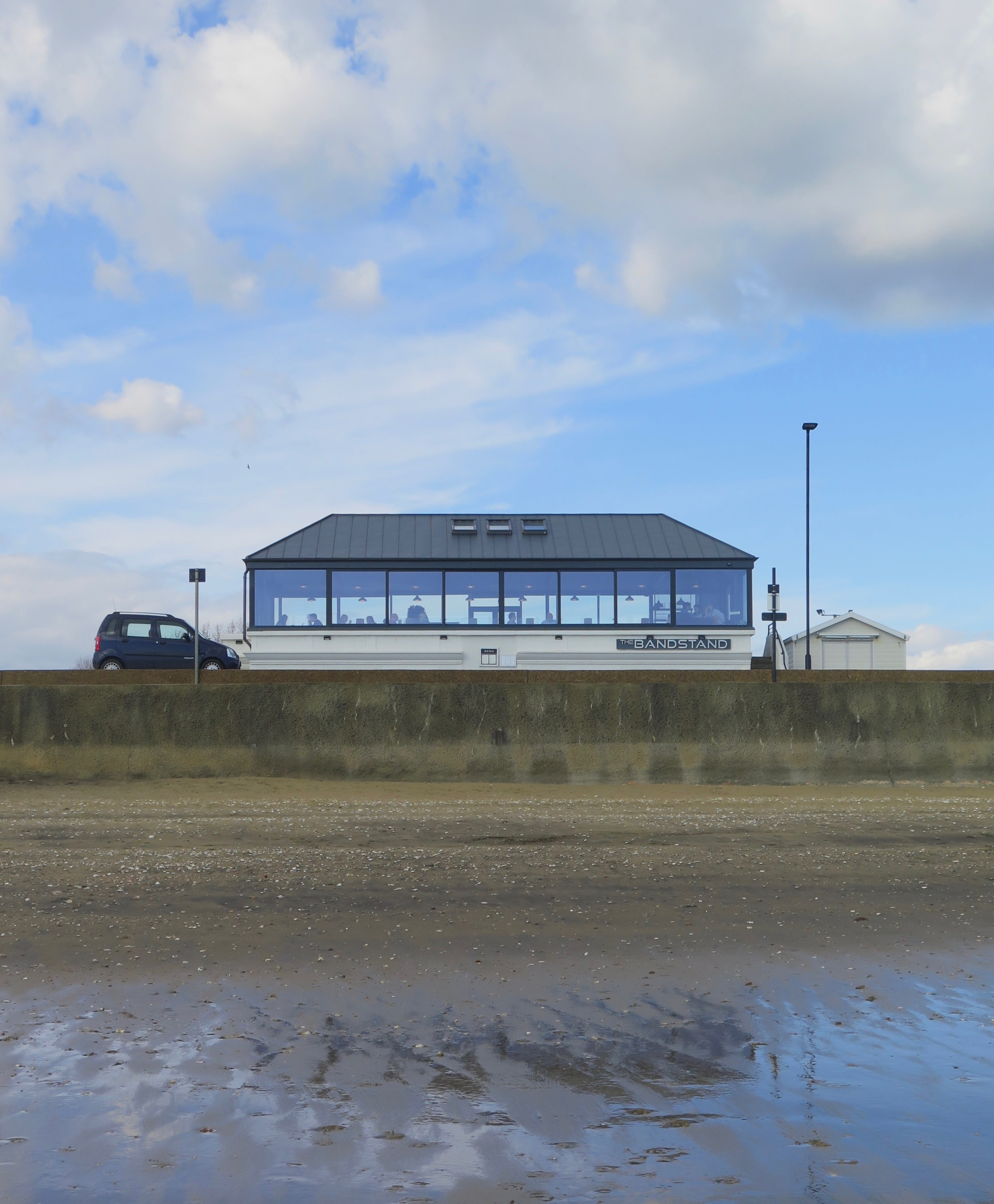 An example of the Isle of Wight seaside town's regeneration